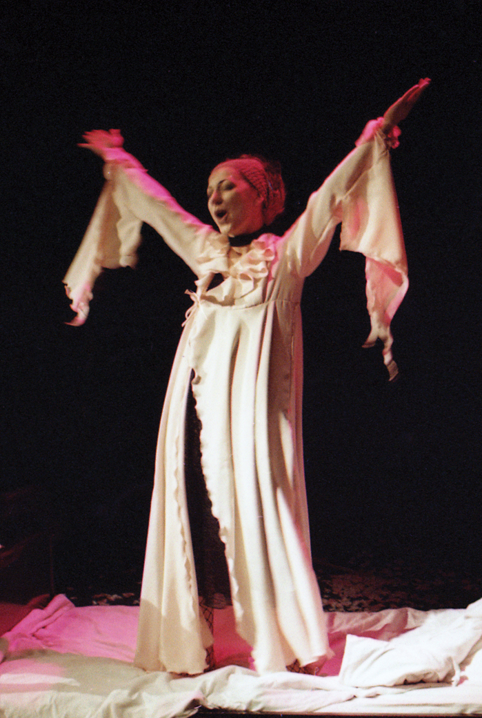 Kinga Mezei as Edith Piaf in performance Death in Pink (Lubomir Feldek), directed by Ljuboslav Majera, Novi Sad Theater – Ujvidéki Szíház, 2002. Photo Gavrilo Grujić Srpski (latinica): Kinga Mezei kao Edit Pjaf u predstavi Ružičasta smrt L. Feldeka, u režiji Ljuboslava Majere, Novosadsko pozorište – Ujvidéki Szíház, Novi Sad, 2002. Fotograf- Gavrilo Grujić Српски (ћирилица): Кинга Мезеи као Едит Пјаф у представи Ружичаста смрт Лубомира Фелдека у режији Лјубослава Мајере, Новосадско позориште, 2002. Фото: Гаврило Грујић